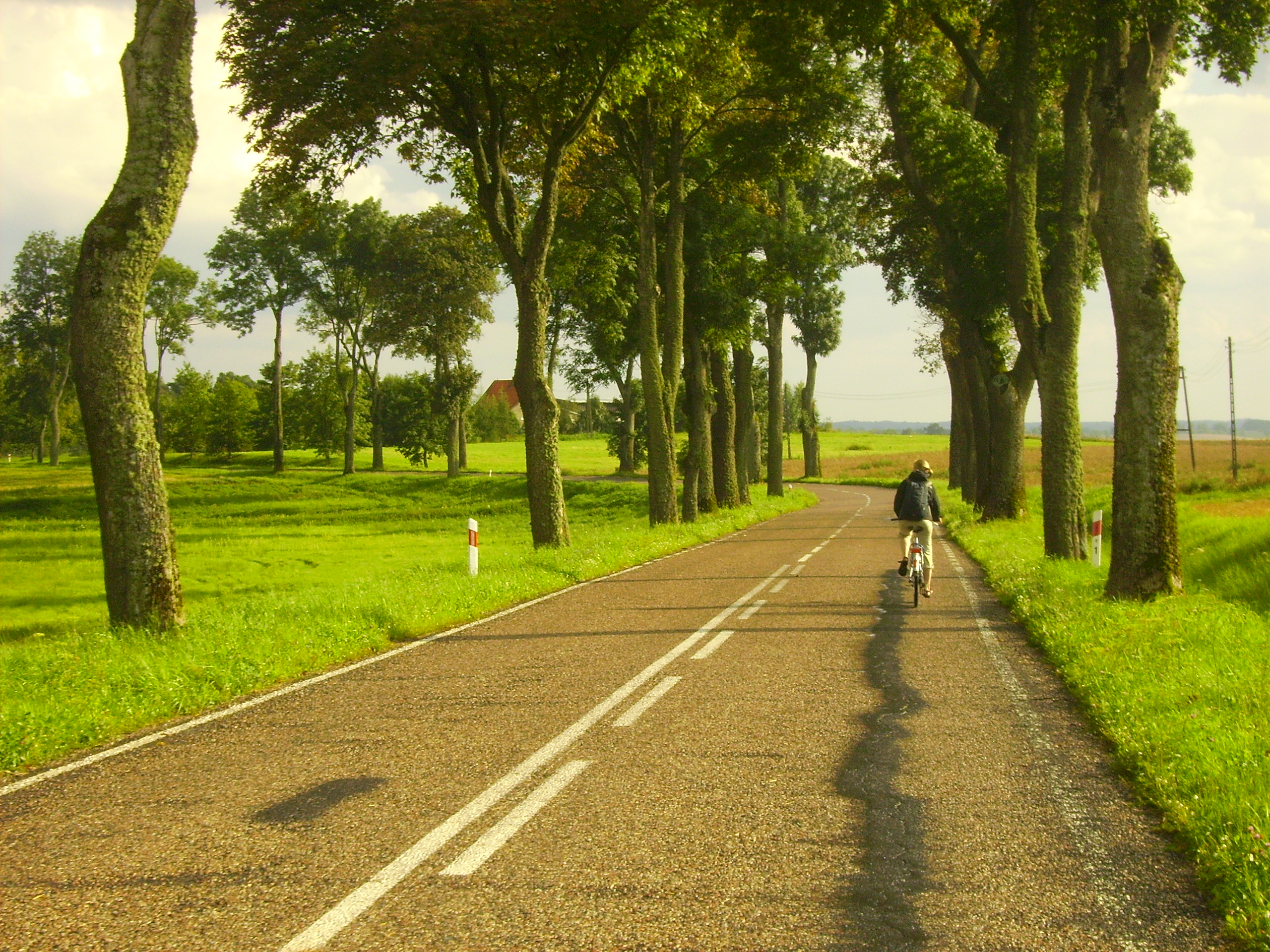 Allee on Droga Krajowa Street 63 close to Perły (Perswalde) in Mazuria.